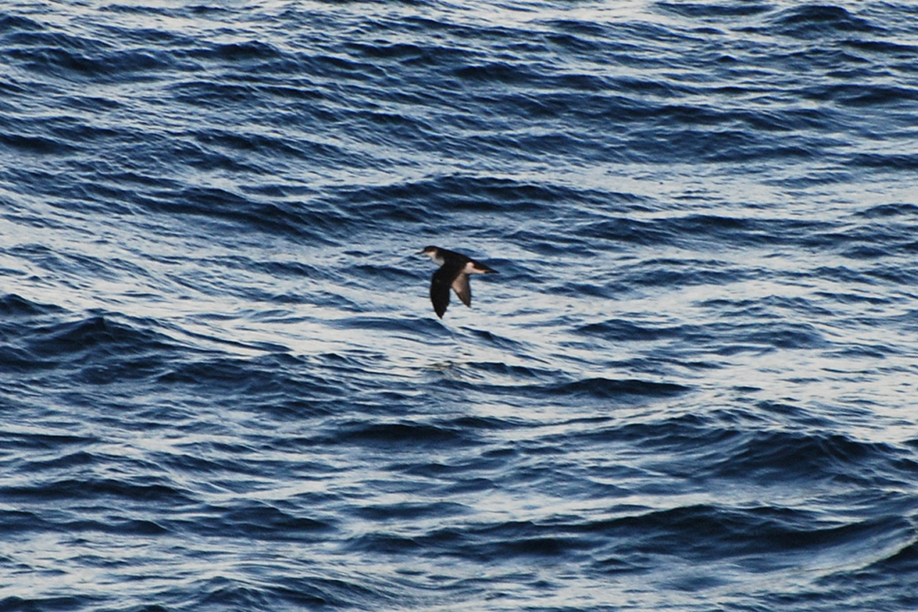 Townsend's Shearwater Puffinus auricularis myrtae, open sea off Argentina